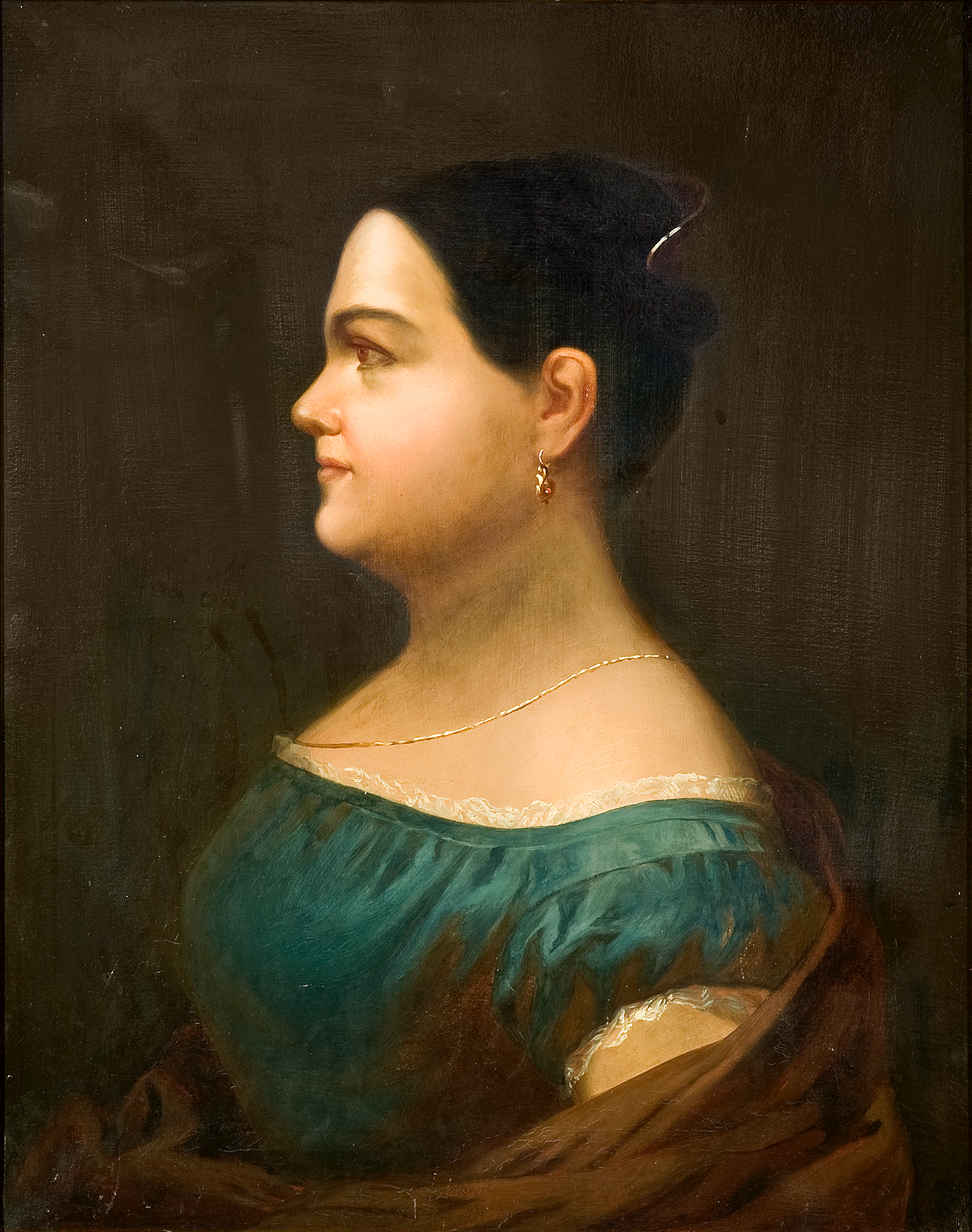 Oil on canvas of Leona Vicario, Heroine of the Independence of Mexico and Mother of the Mexican Nation